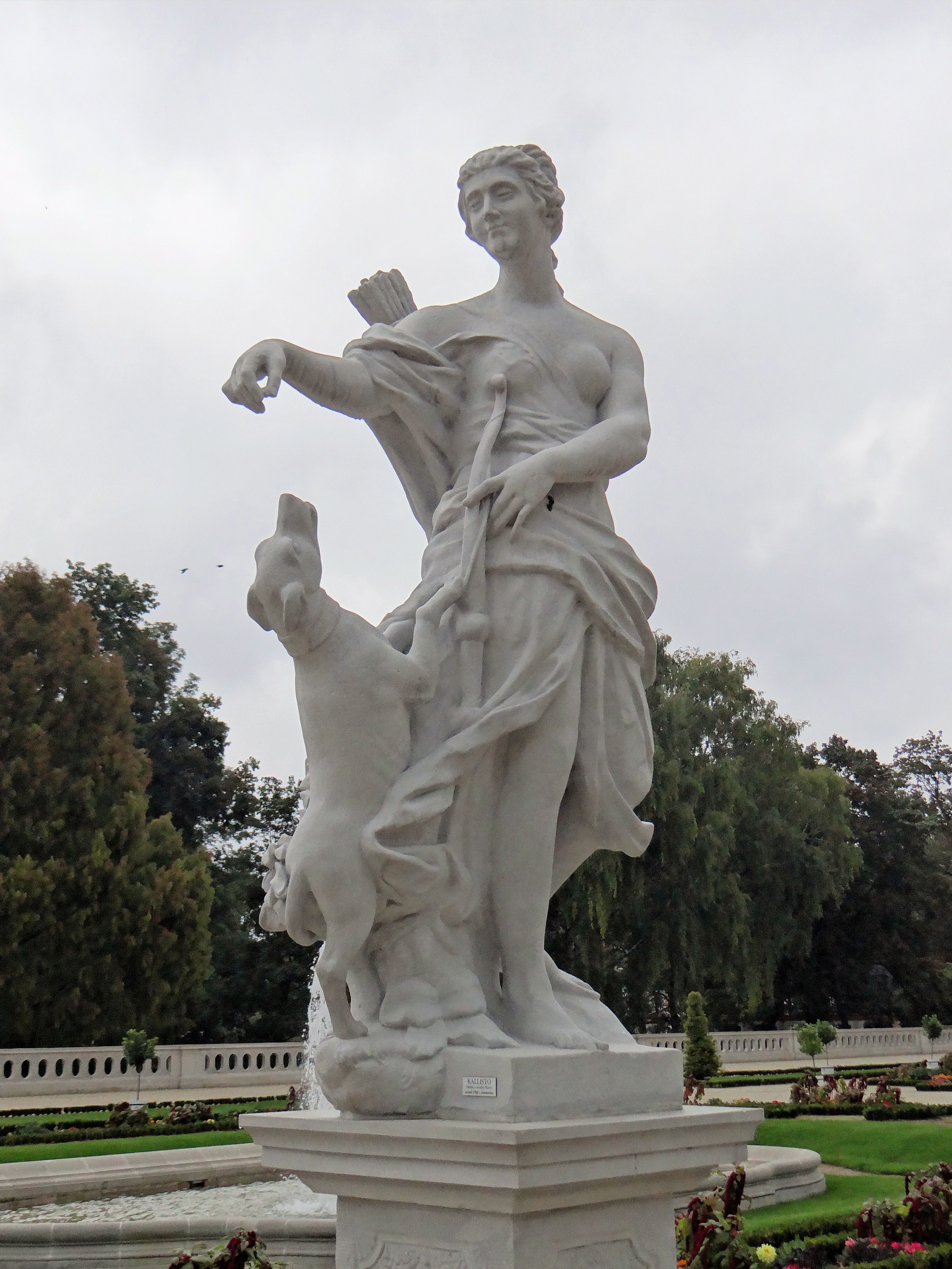 Sculpture in the Garden Palace Branicki in Białystok - Kalisto